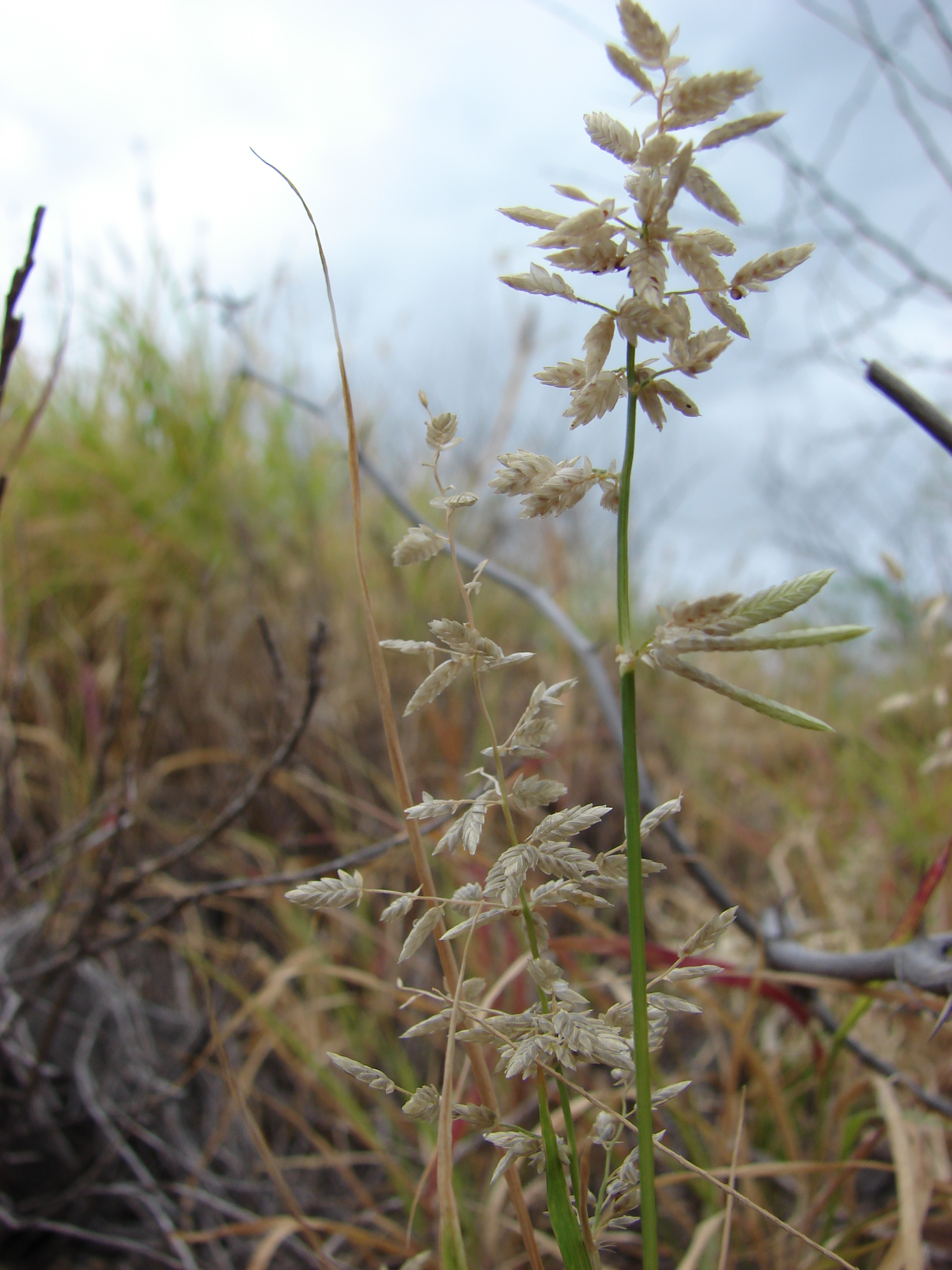 Eragrostis cilianensis (habit). Location: Kahoolawe, Honokanaia